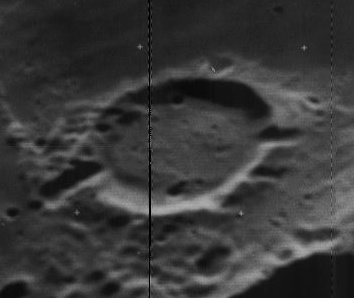 Oblique view of Onizuka, on the far side of the moon, facing west.